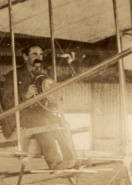 Cropped image of HP Nielsen from the only known extant photo of the Merle 1910 Biplane, built in 1910 for Adrian J Merle by Hans Peter Nielsen. Taken at Nielsen's machine shop at 2254 Santa Clara, Ave, Alameda CA.Original image author unknown, date of photographer death unknown. Fair use of original image claimed as a unique historical image. This is one of very few known photos of Hans Peter Nielsen, notable for designing and building the first aeroplane in Alameda, CA.